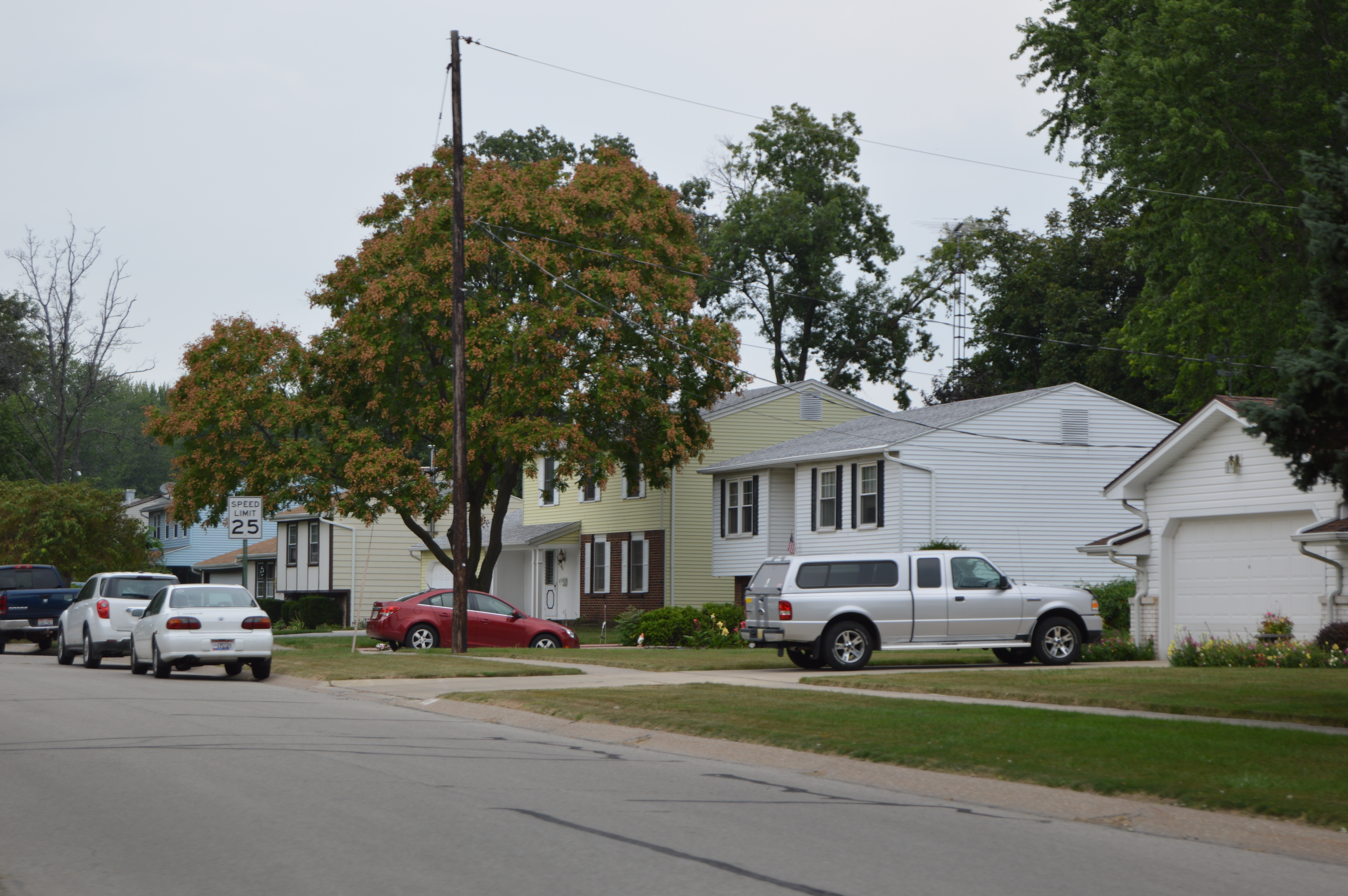 Houses on the eastern side of Randon Drive, seen looking northward from Jasik Drive, in the eastern section of Washington Township, Lucas County, Ohio, United States.